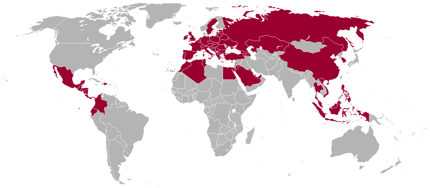 Location of Pull & Bear stores around the world.